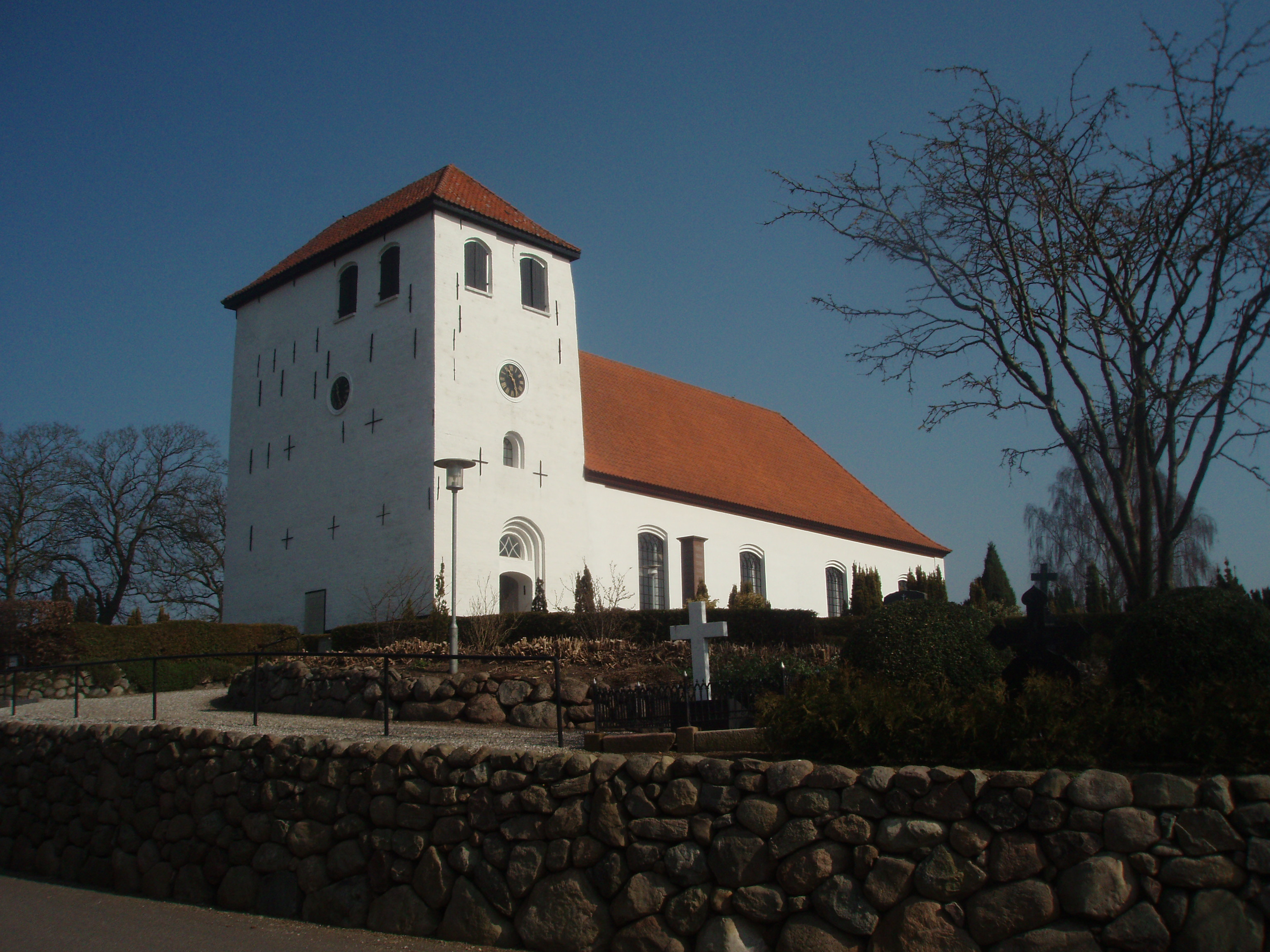 The Church in Ketting, Denmark. April 2009